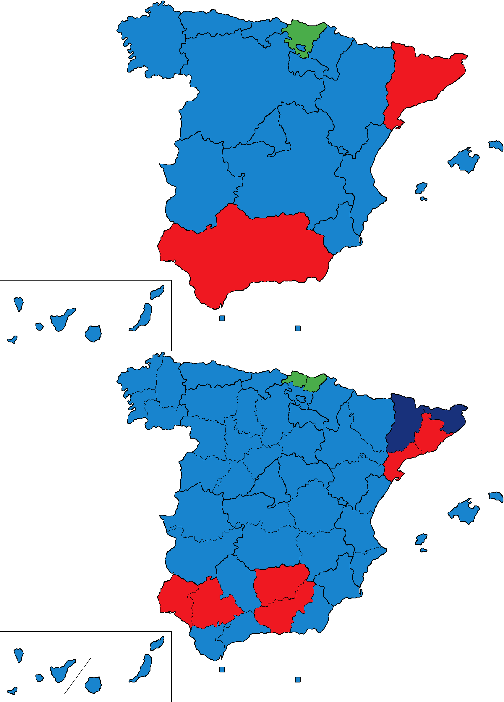 Most voted party in the 2000 Spanish Congress of Deputies election by autonomous communities and provinces.